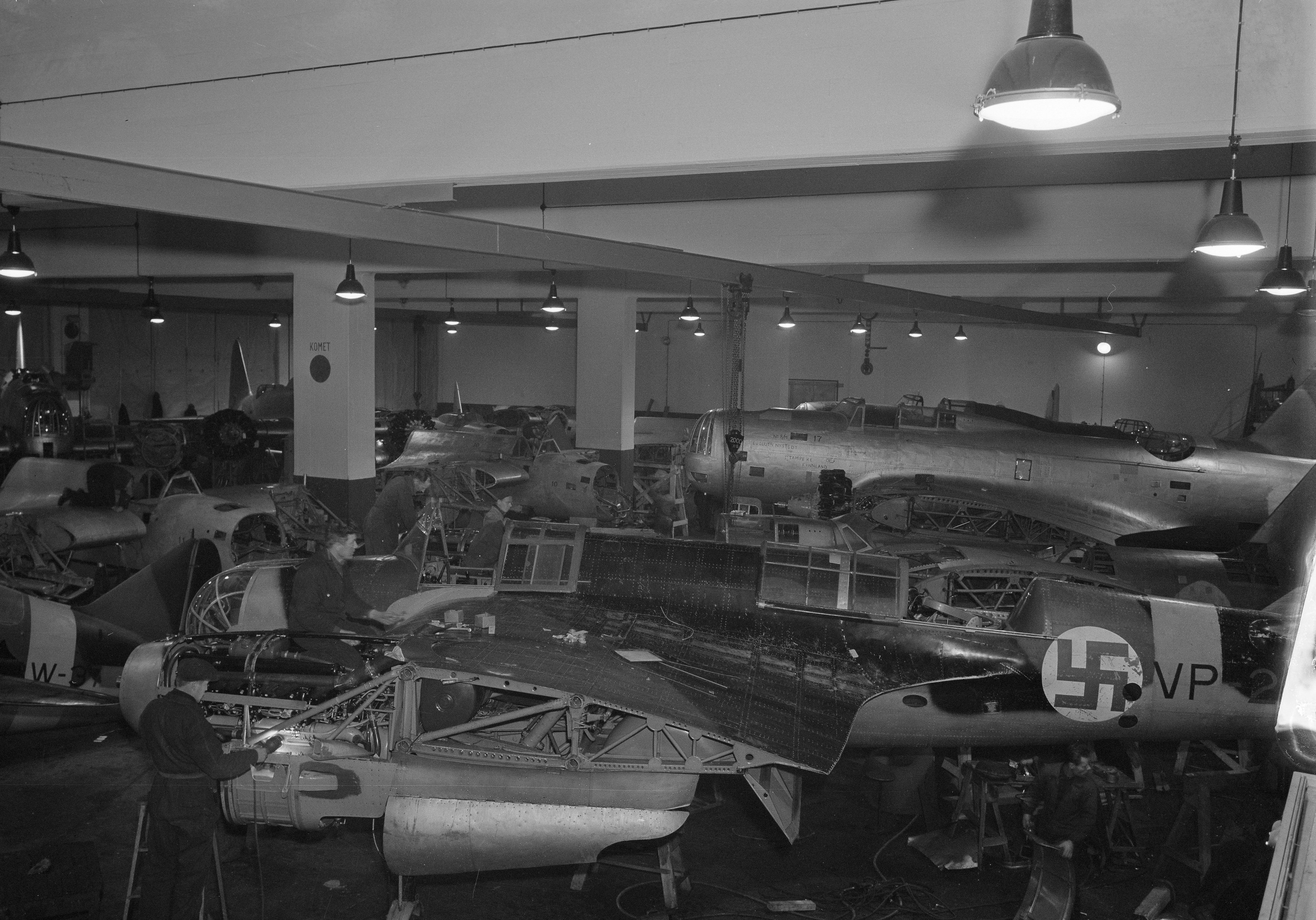 Yleiskuvia työhalleista. Kuvauspaikka: Tampere, Valtion lentokonetehdas